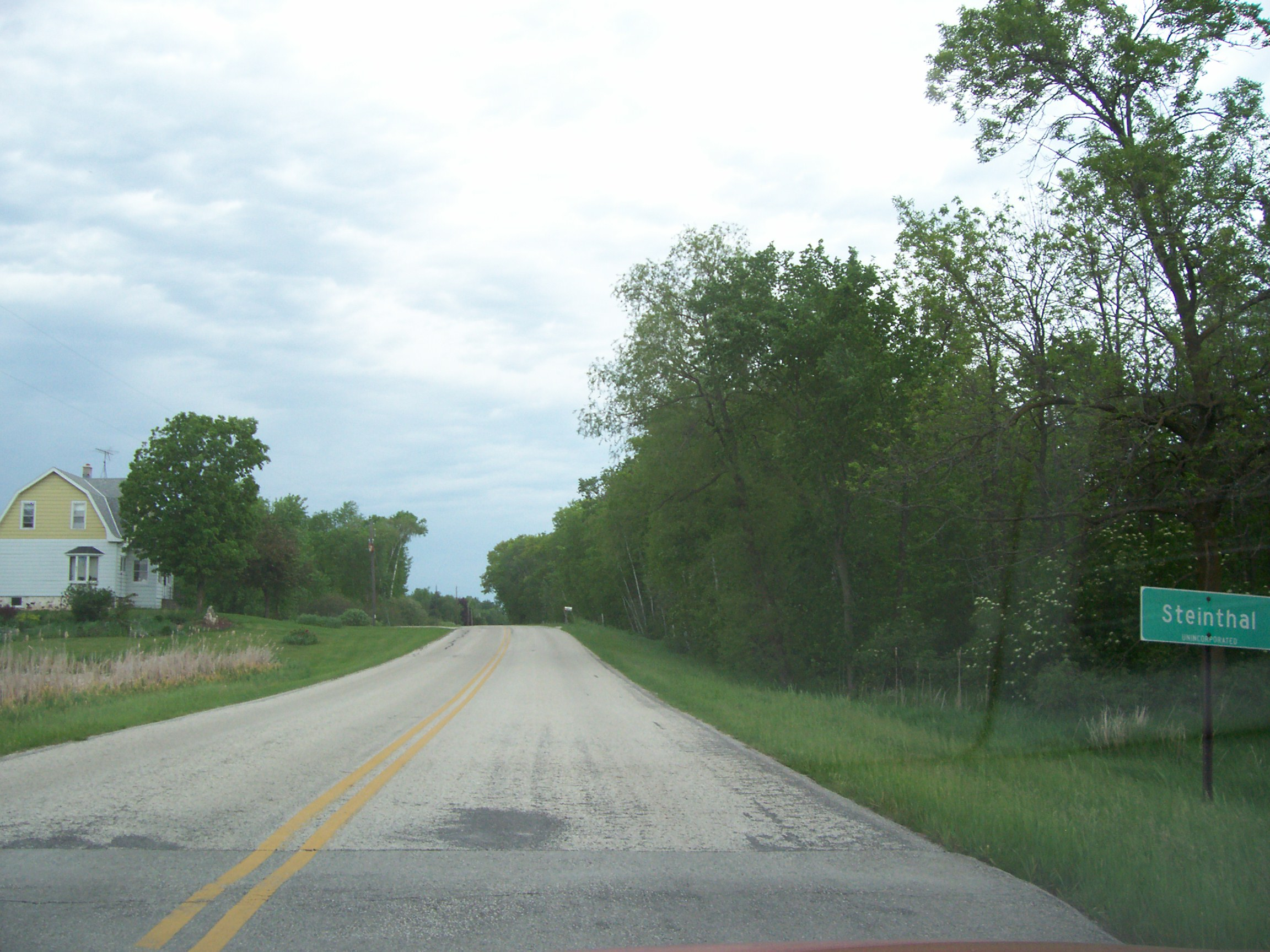 Looking north at the welcome sign for Steinthal, Wisconsin.